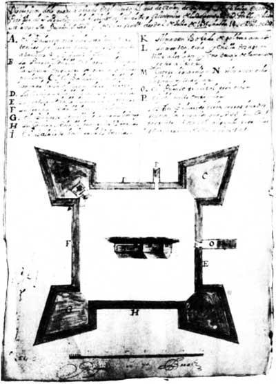 The construction plan of the Castillo de San Marco in St. Augustine, Florida, drawn in 1677